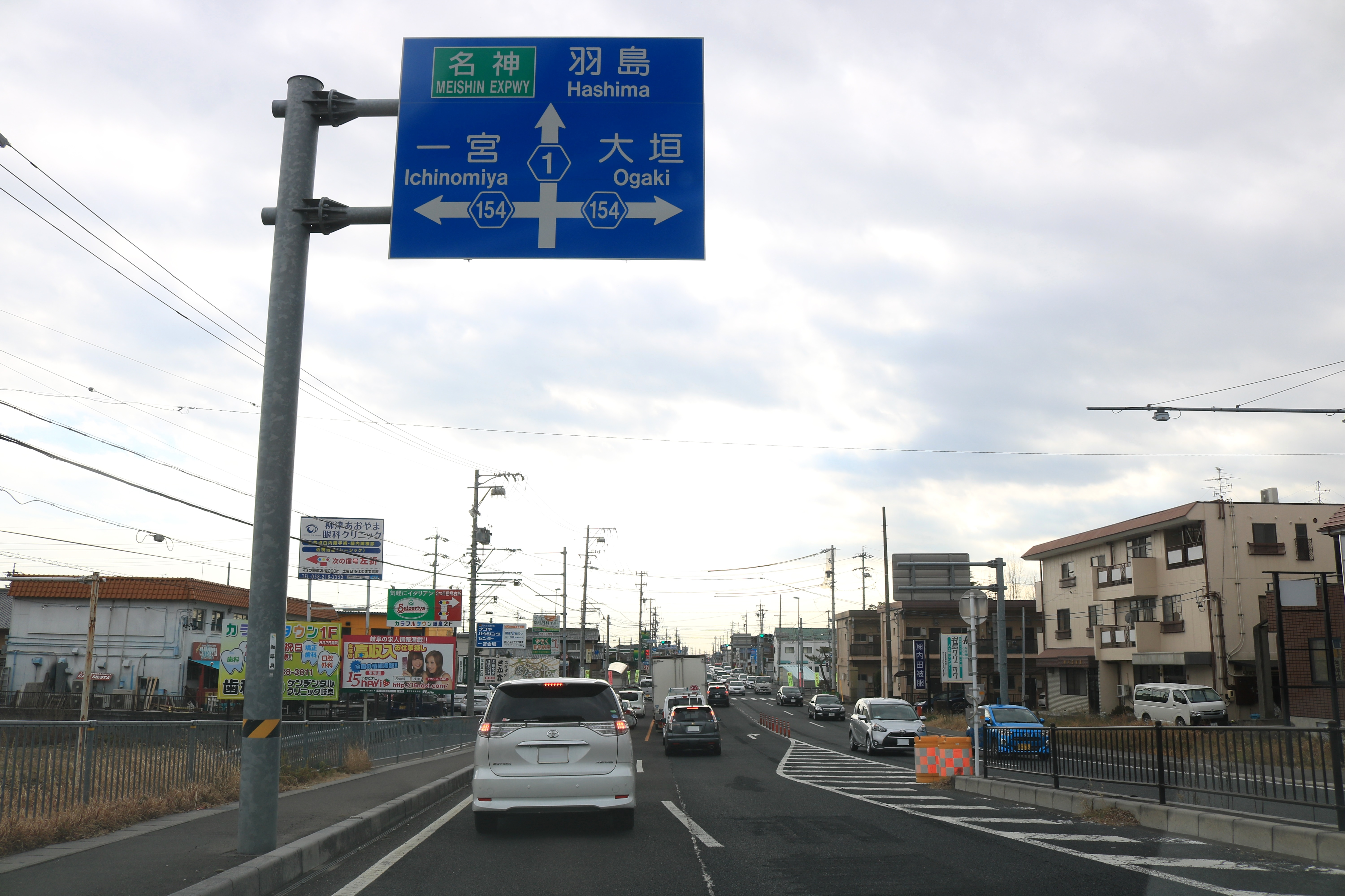 Gifu Prefectural Road Route 1 and Gifu Prefectural Road Route 154 in Yanaizucho, Gifu City, Gifu Prefectue, Japan.